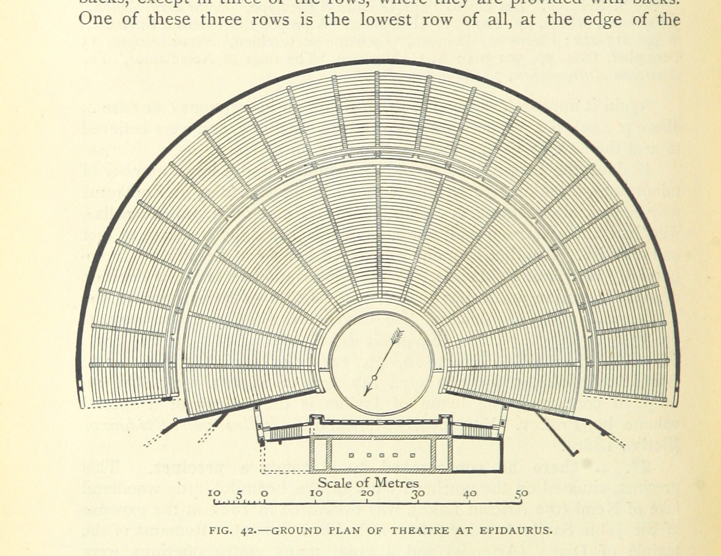 View this map on the BL Georeferencer service. Image taken from: Title: "Pausanias's Description of Greece. Translated with a commentary by J. G.Frazer" Contributor: Frazer, James George - Sir Shelfmark: "British Library HMNTS 010127.b.36." Volume: 03 Page: 276 Place of Publishing: London Date of Publishing: 1898 Publisher: Macmillan & Co. Issuance: monographic Identifier: 002798431 Explore: Find this item in the British Library catalogue, 'Explore'. Open the page in the British Library's itemViewer (page image 276) Download the PDF for this book Image found on book scan 276 (NB not a pagenumber)Download the OCR-derived text for this volume: (plain text) or (json) Click here to see all the illustrations in this book and click here to browse other illustrations published in books in the same year. Order a higher quality version from here.